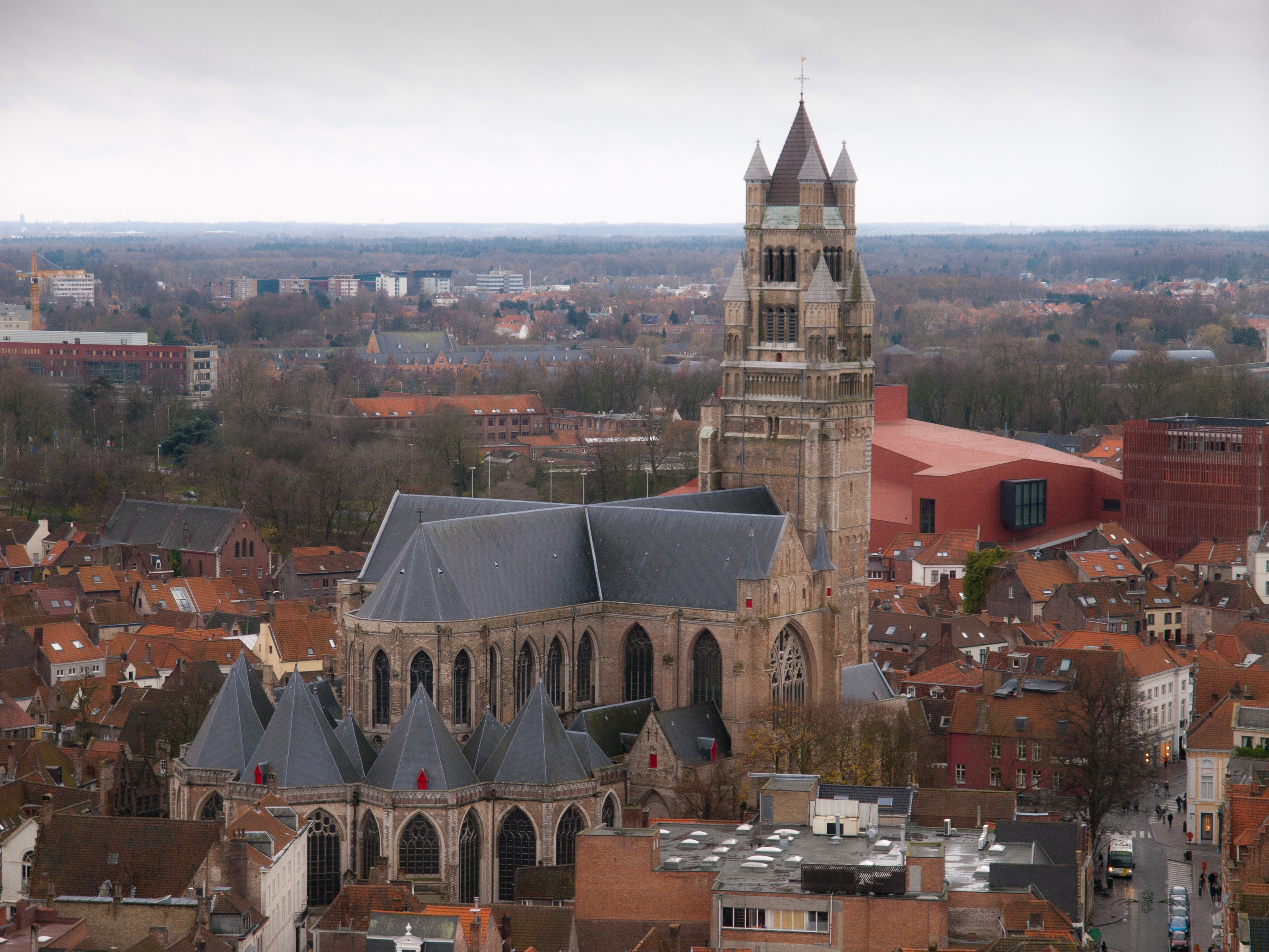 View from the top of the Belfort Tower in Market Square in Bruges